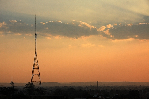 Landscape photograph at Akshwani tower Beed.